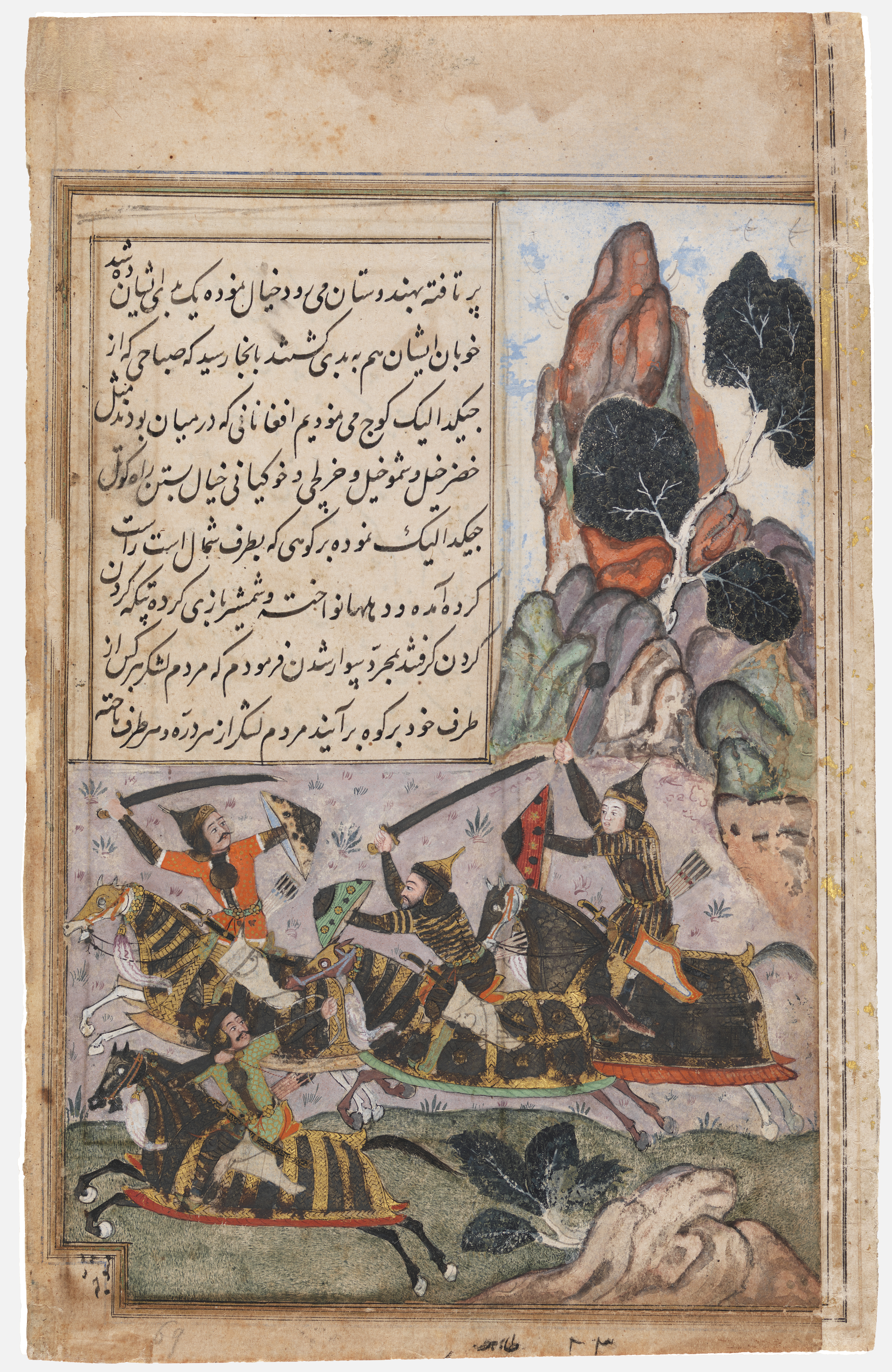 Babur Marches from Kabul to Hindustan in 1507 (recto); Text (verso); Folio from a Baburnama